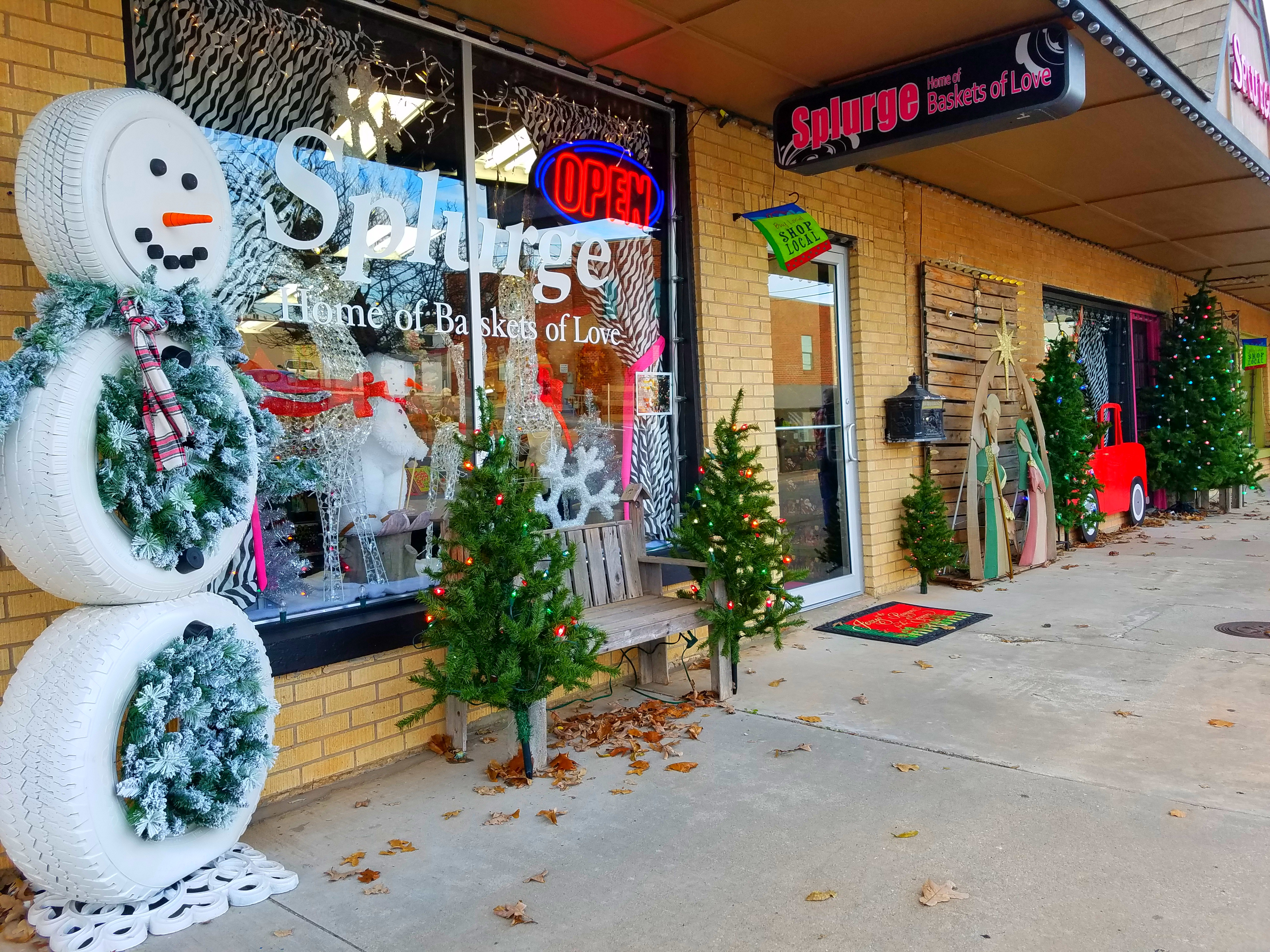 This picture was taken during the 2017 Annual Tree Lighting Festival